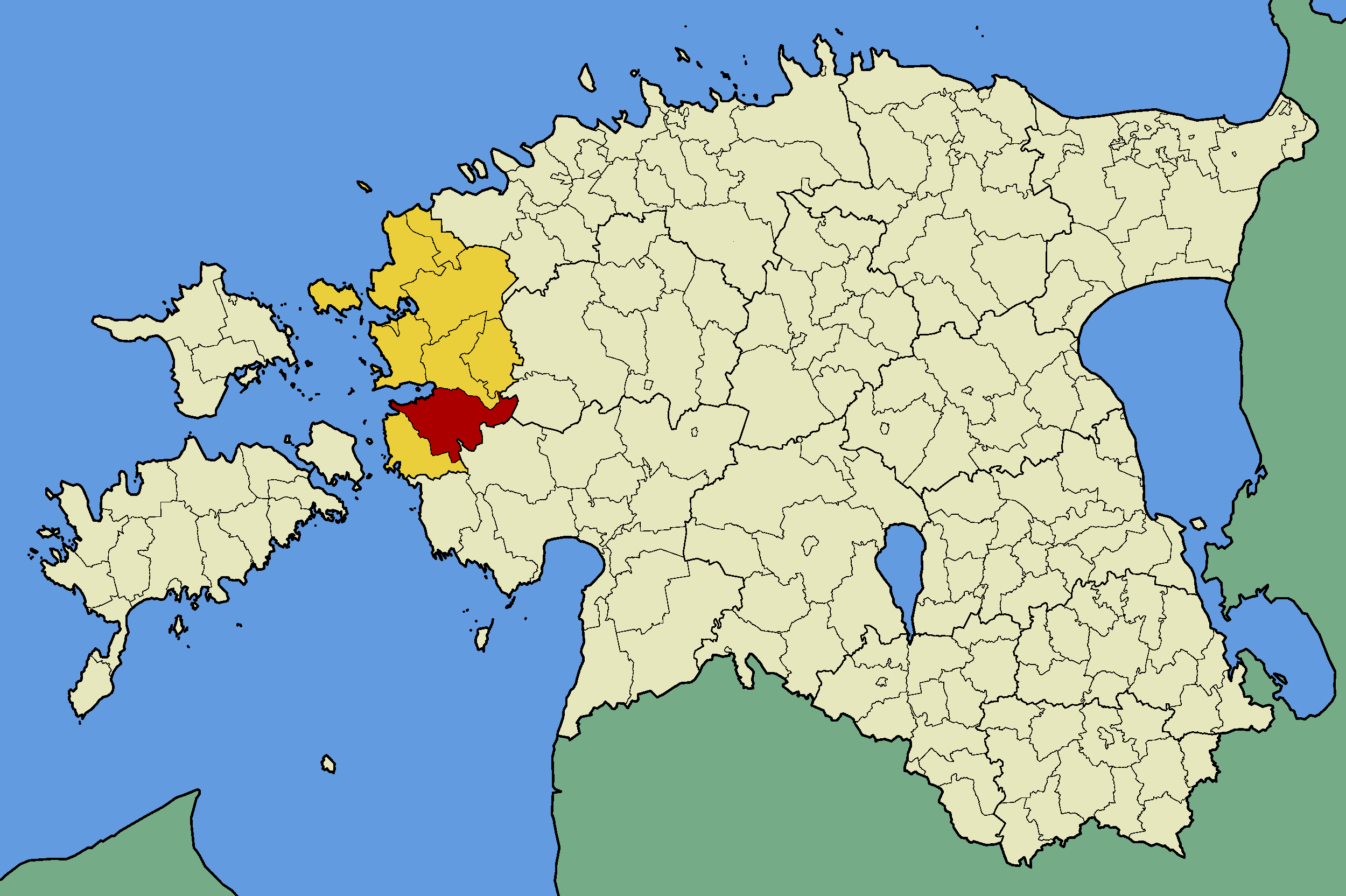 Map of Estonia with borders of municipalities (parishes). Lääne county and Lihula municipality emphasized.